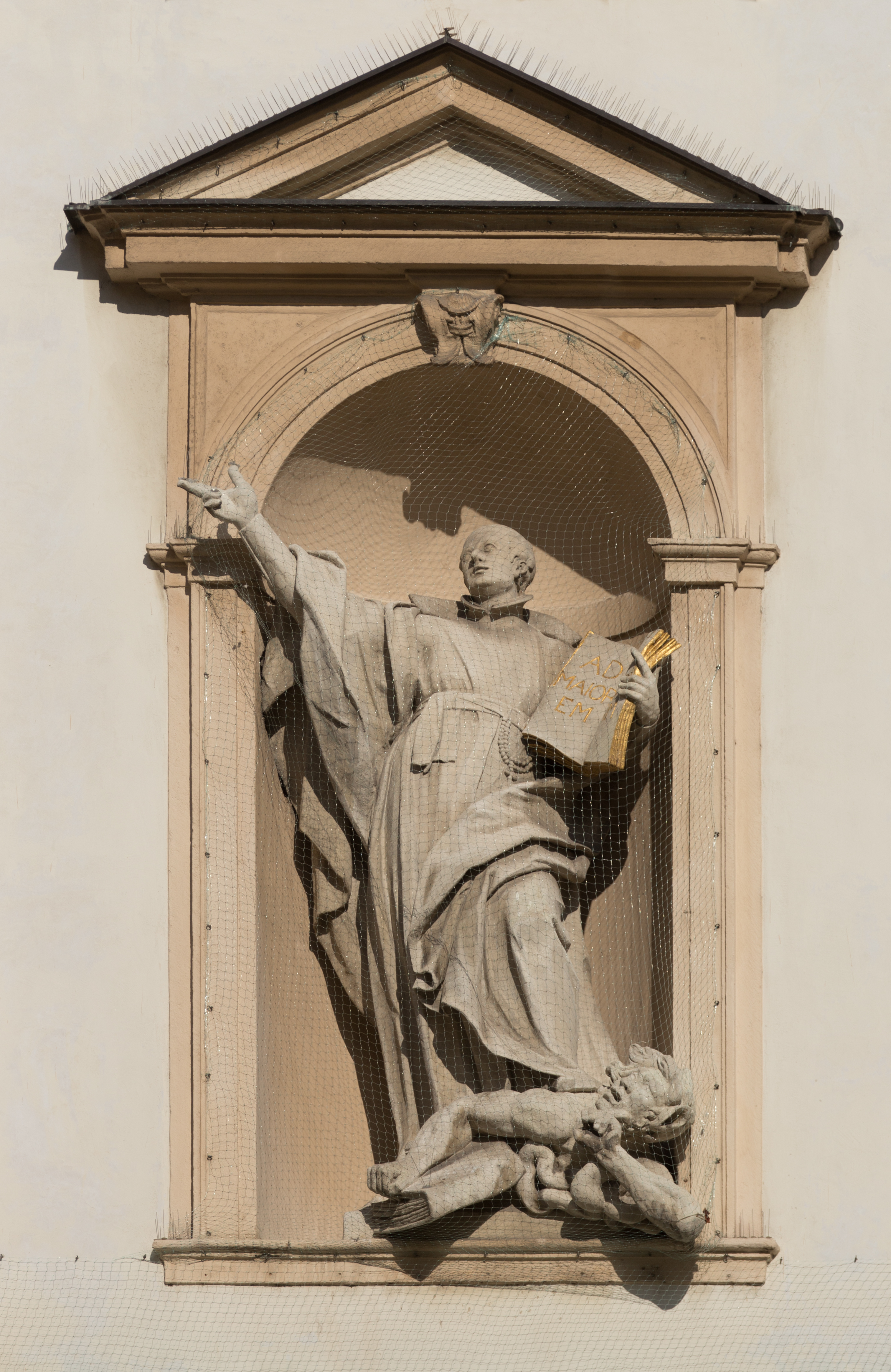 Exterior figures at Jesuitenkirche, Vienna